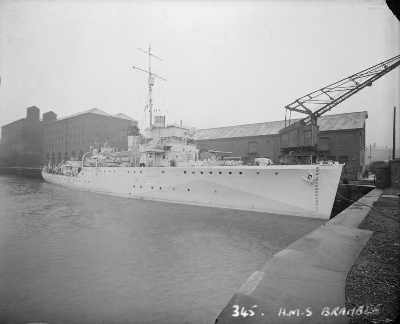 Photograph of British minesweeper HMS Bramble.